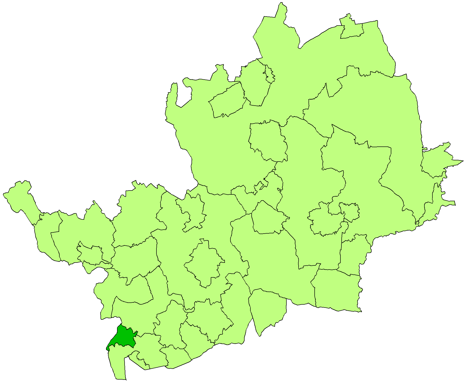 Map of Chorleywood Urban District within Hertfordshire prior to the reorganisation of local government in 1974.